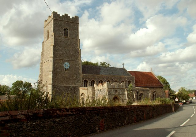 Church of St Mary in Badwell Ash, Suffolk, England. A Grade I listed medieval church.